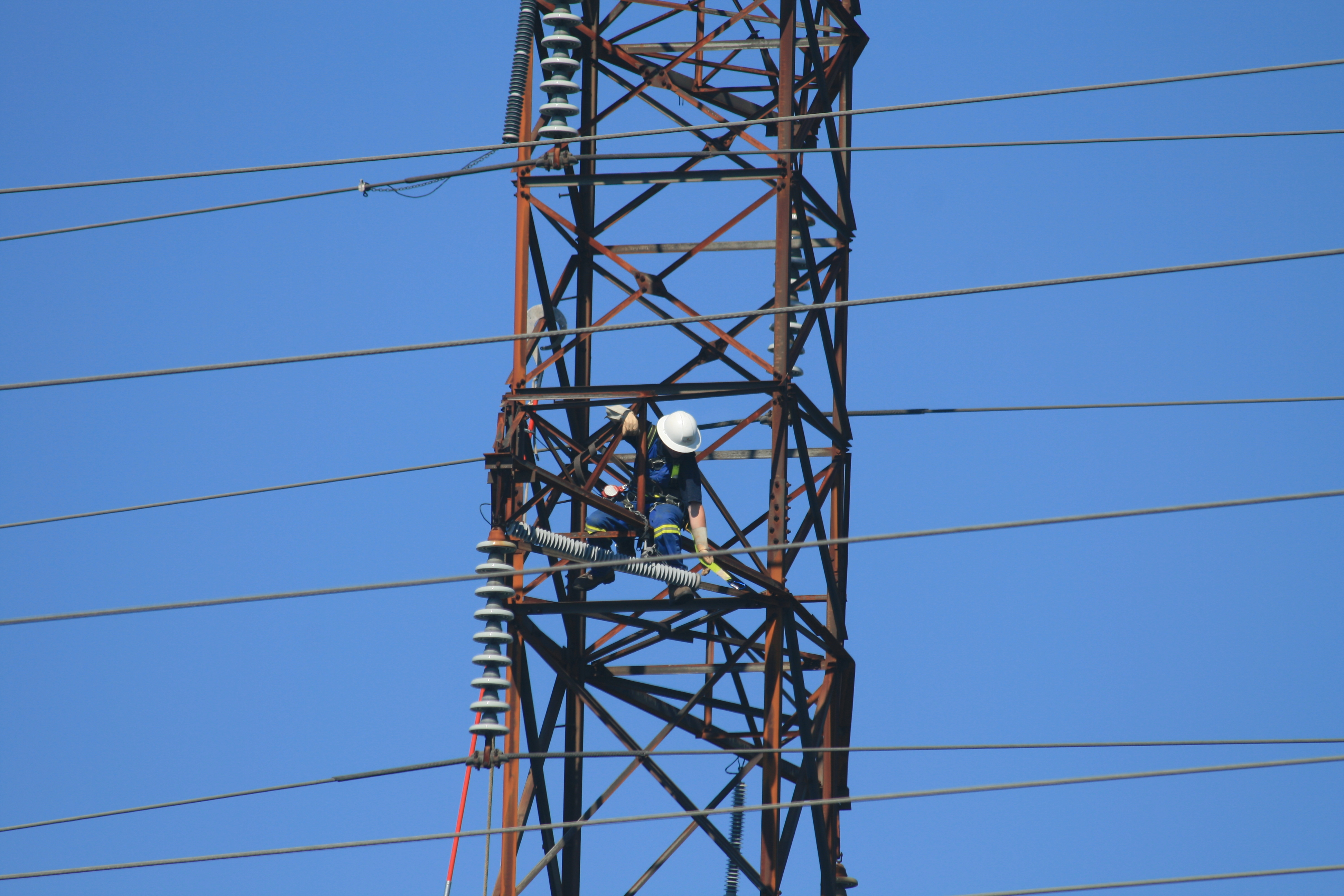 A NB Power worker performs maintenance of a lightning arrestor on a electrical transmission tower in Saint John, New Brunswick.